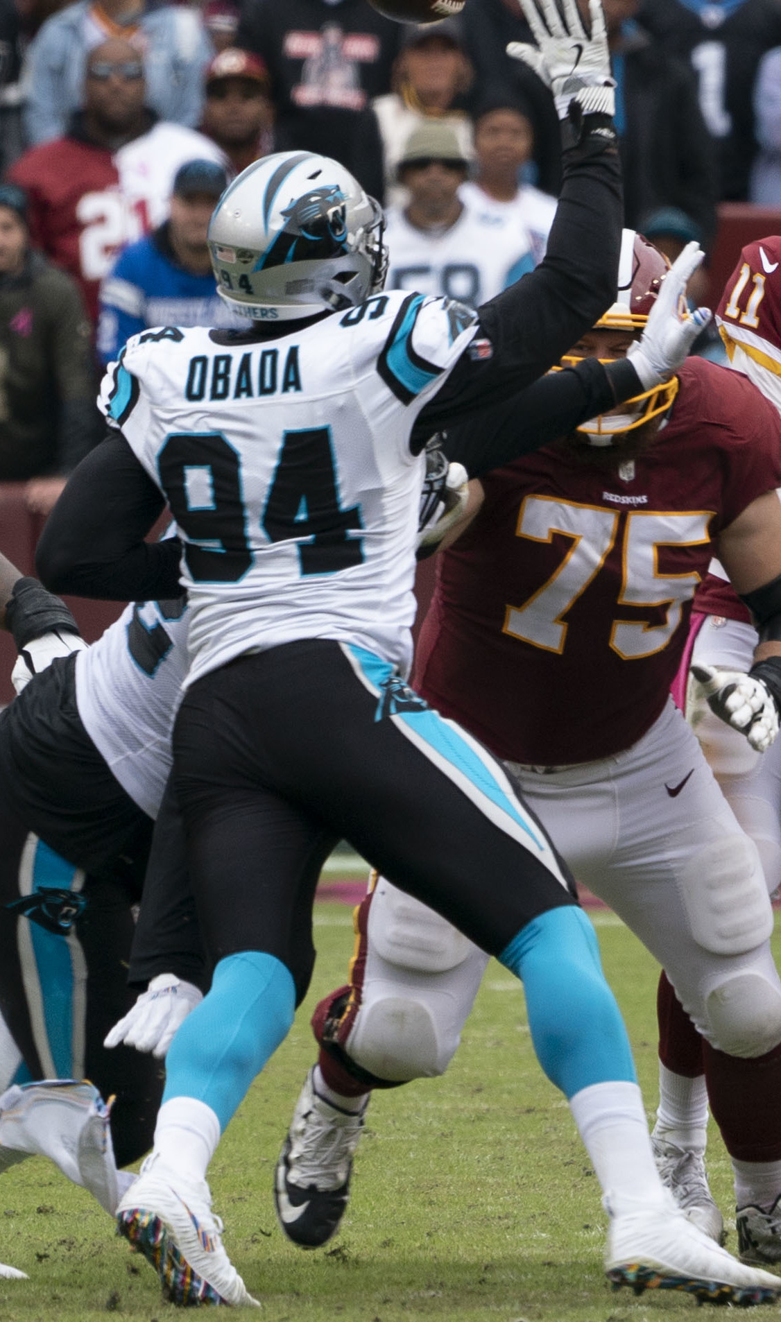 Panthers at Redskins 10/14/18